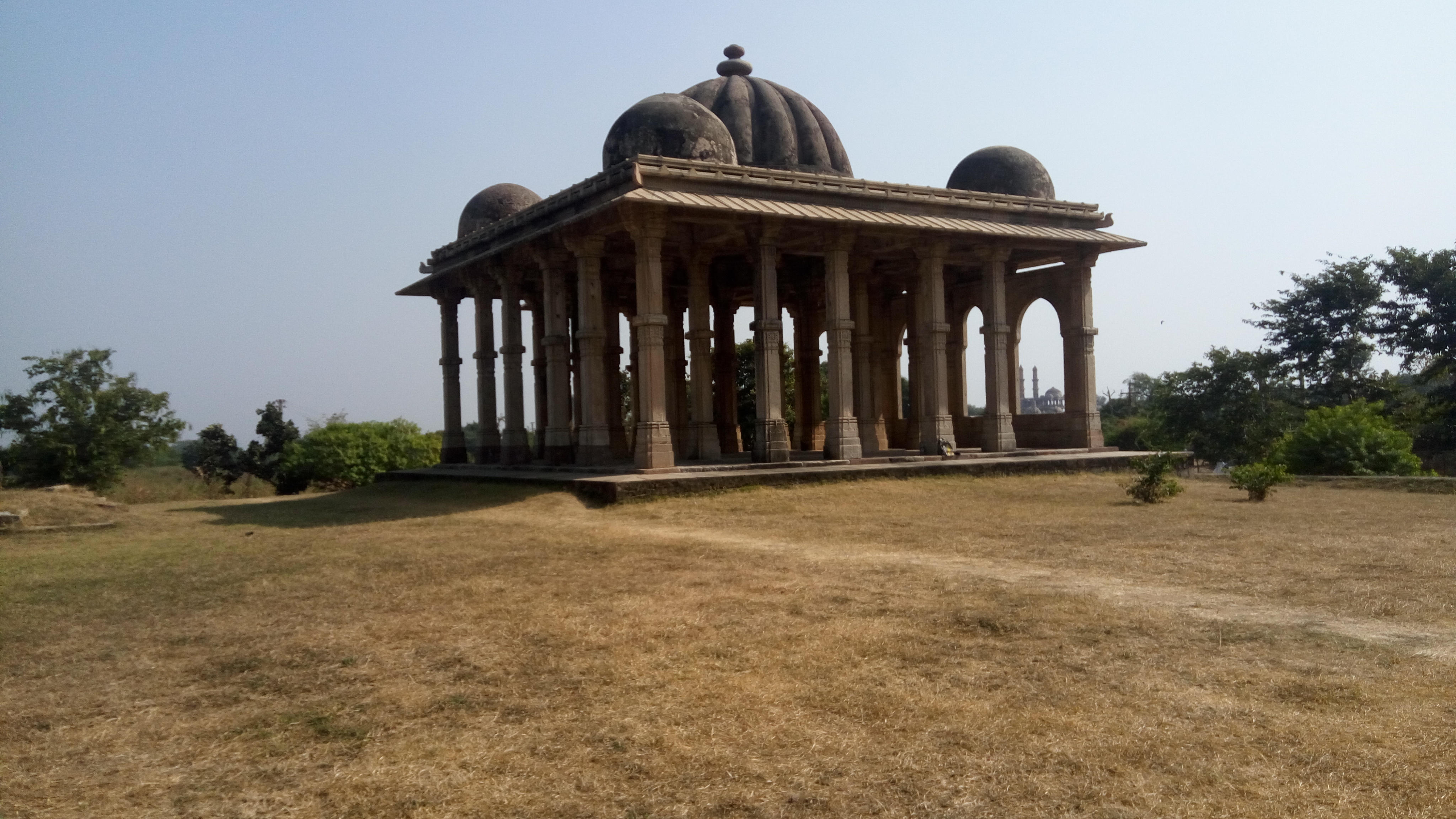 cenotaph in front of Kevda Masjid, Champaner-Pavagarh Archaeological Park, Halol, India